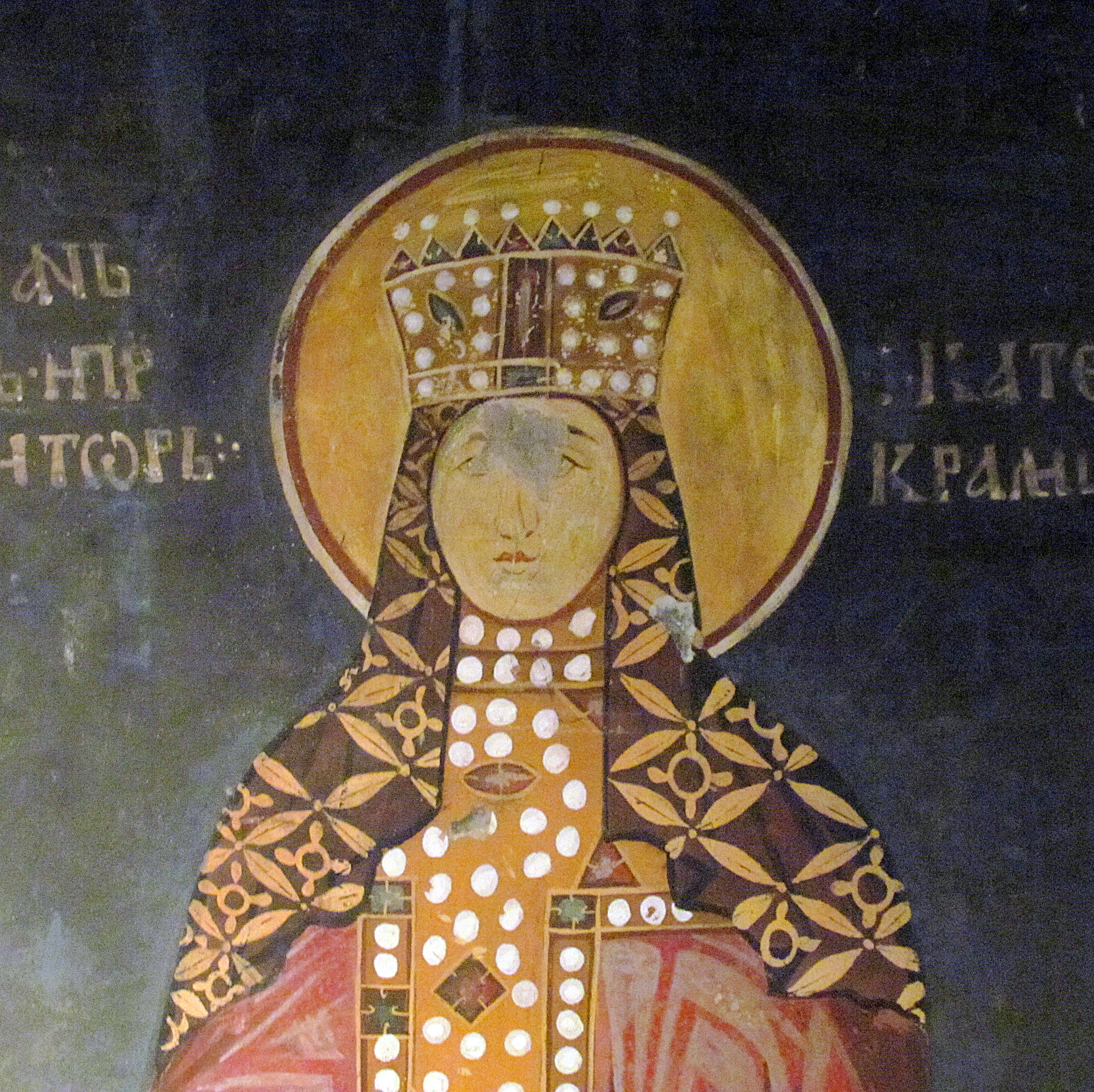 Catherine of Hungary, Queen of Serbia, St. Achilleos monastery, Arilje, 1296